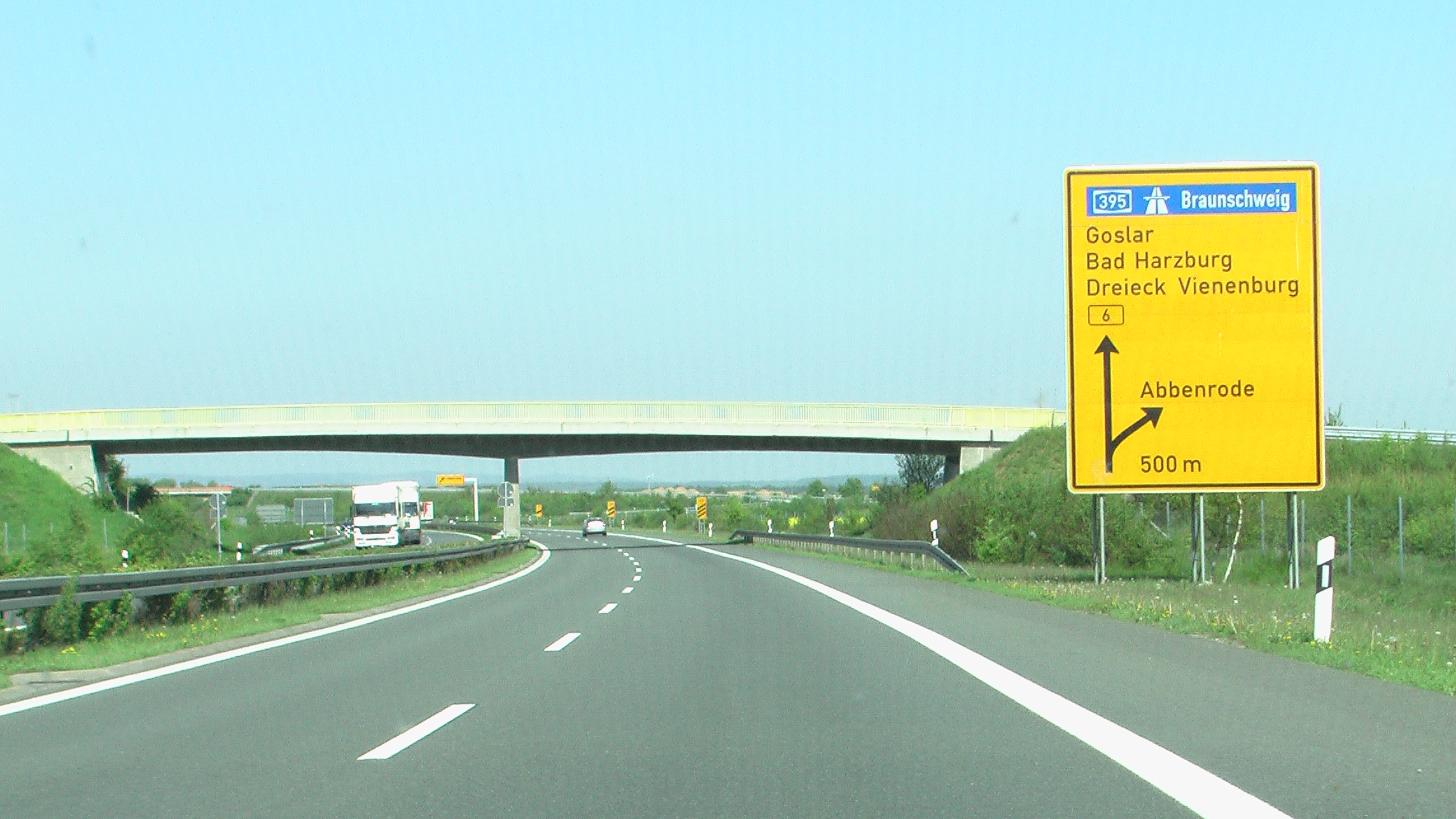 German Federal Road no. 6n near Abbenrode heading towards Bad Harzburg.